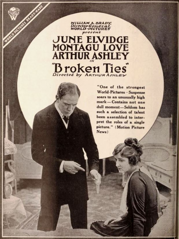 Advertisement for the American drama film Broken Ties (1918) with Montagu Love and June Elvidge, on page 8 of the March 2, 1918 Exhibitors Herald.